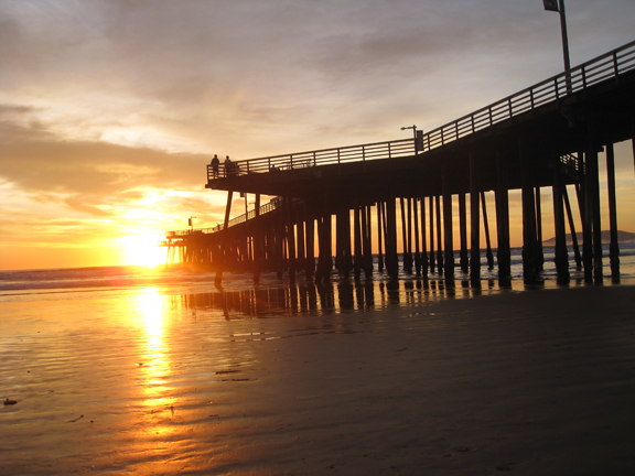 Pismo Beach pier, in San Luis Obispo County, California. Winter sunset taken on beach, near Addie Vacation Townhomes.